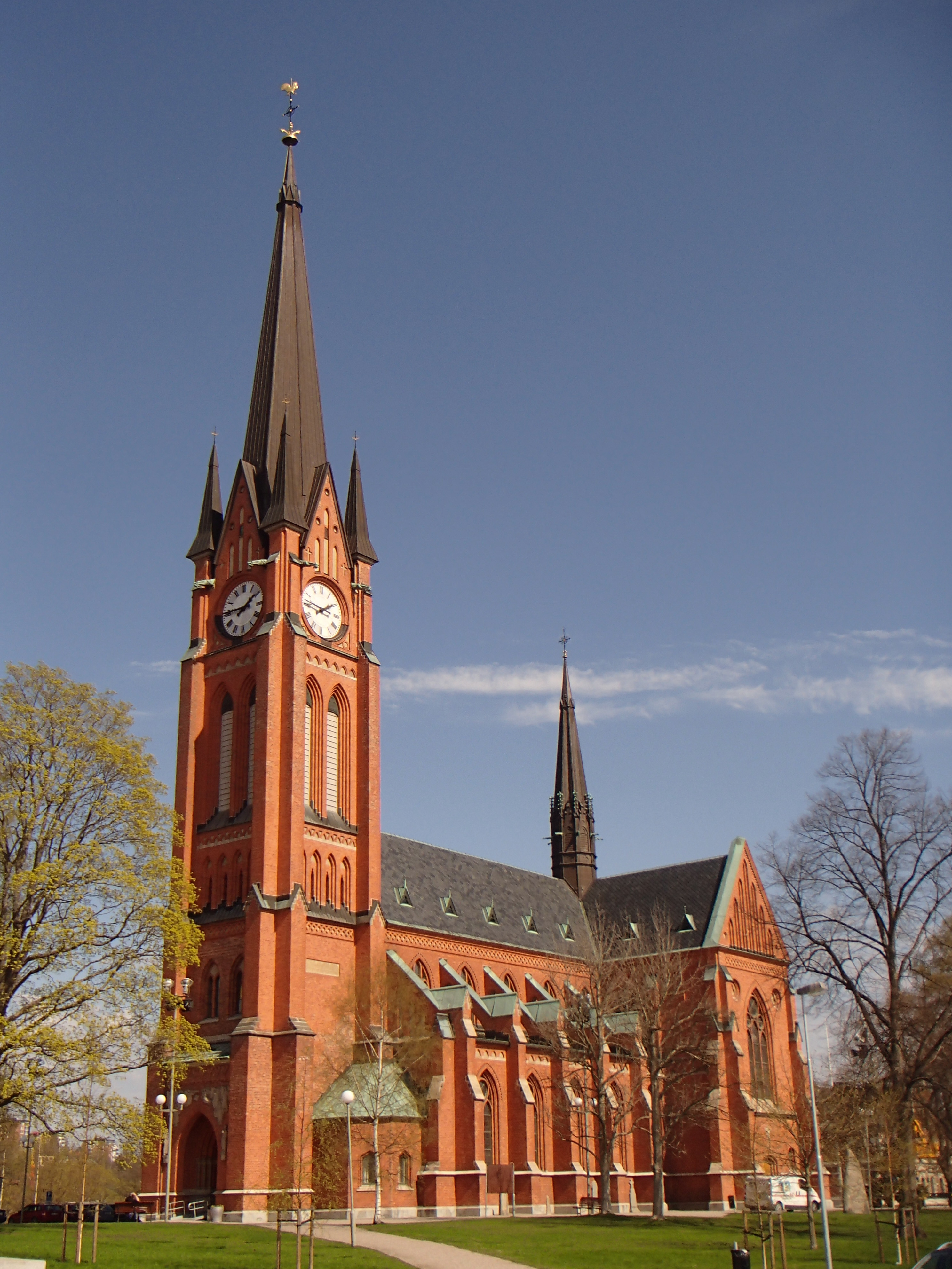 The church building of "Gustav Adolfs kyrka" at Rådhusgatan 36 in Sundsvall